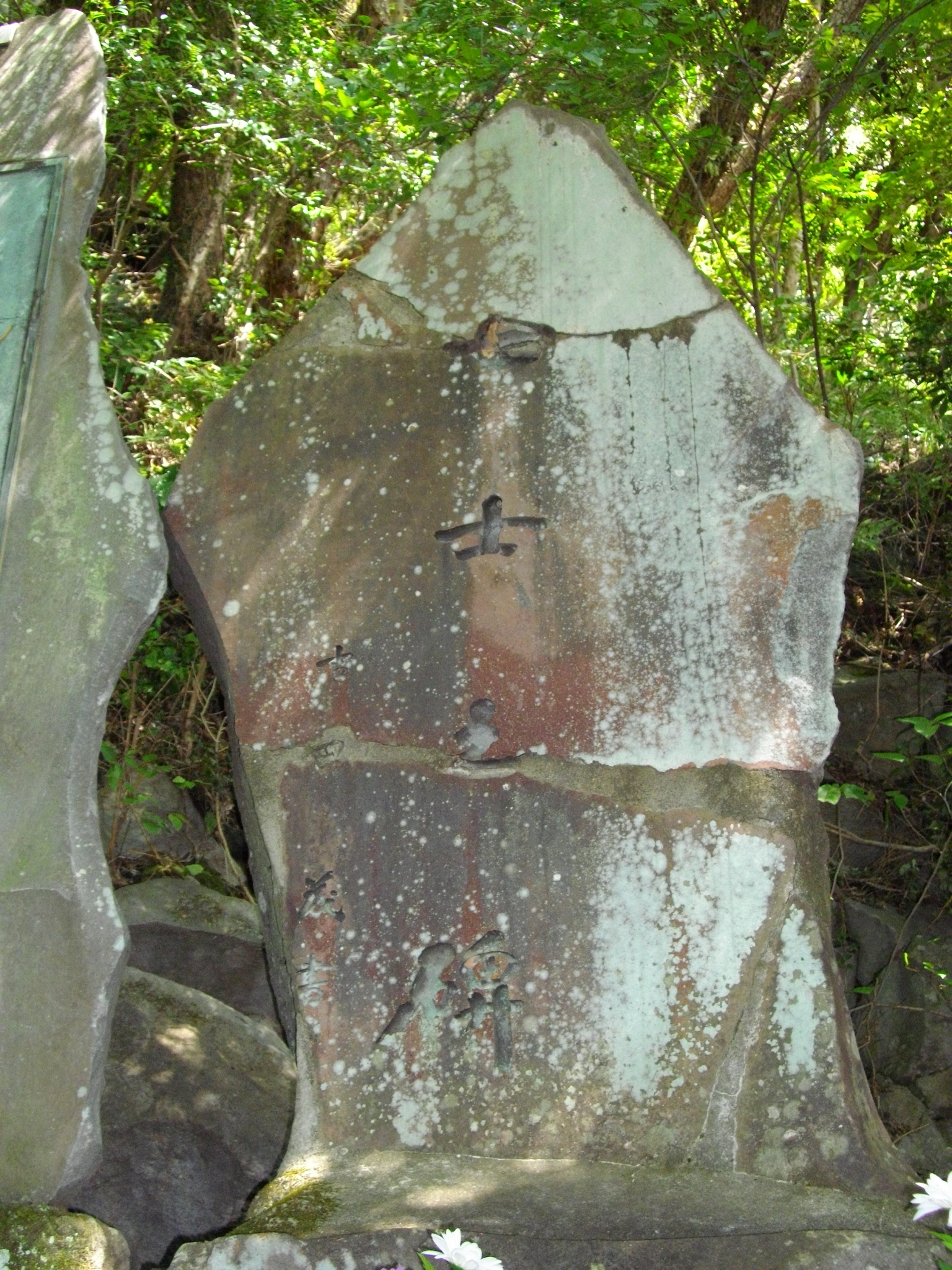 Koa Kannon Cenotaphs